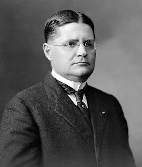 Ernesto Tisdel Lefevre (1876–1922), acting President of Panama in 1920